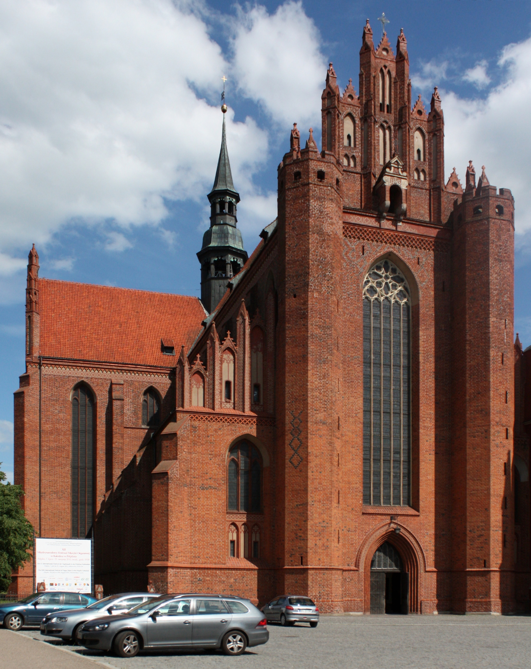 Pelplin Cathedral